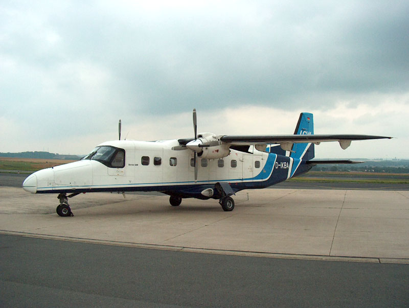 Do 228 of LGW, photo by Oliver Grzimek